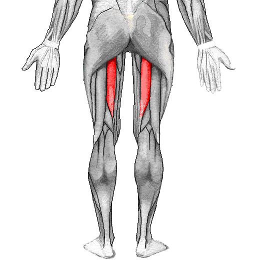 Músculo semitendinoso * Original by Användare:Chrizz, 30 maj 2005 * compressed with pngcrush